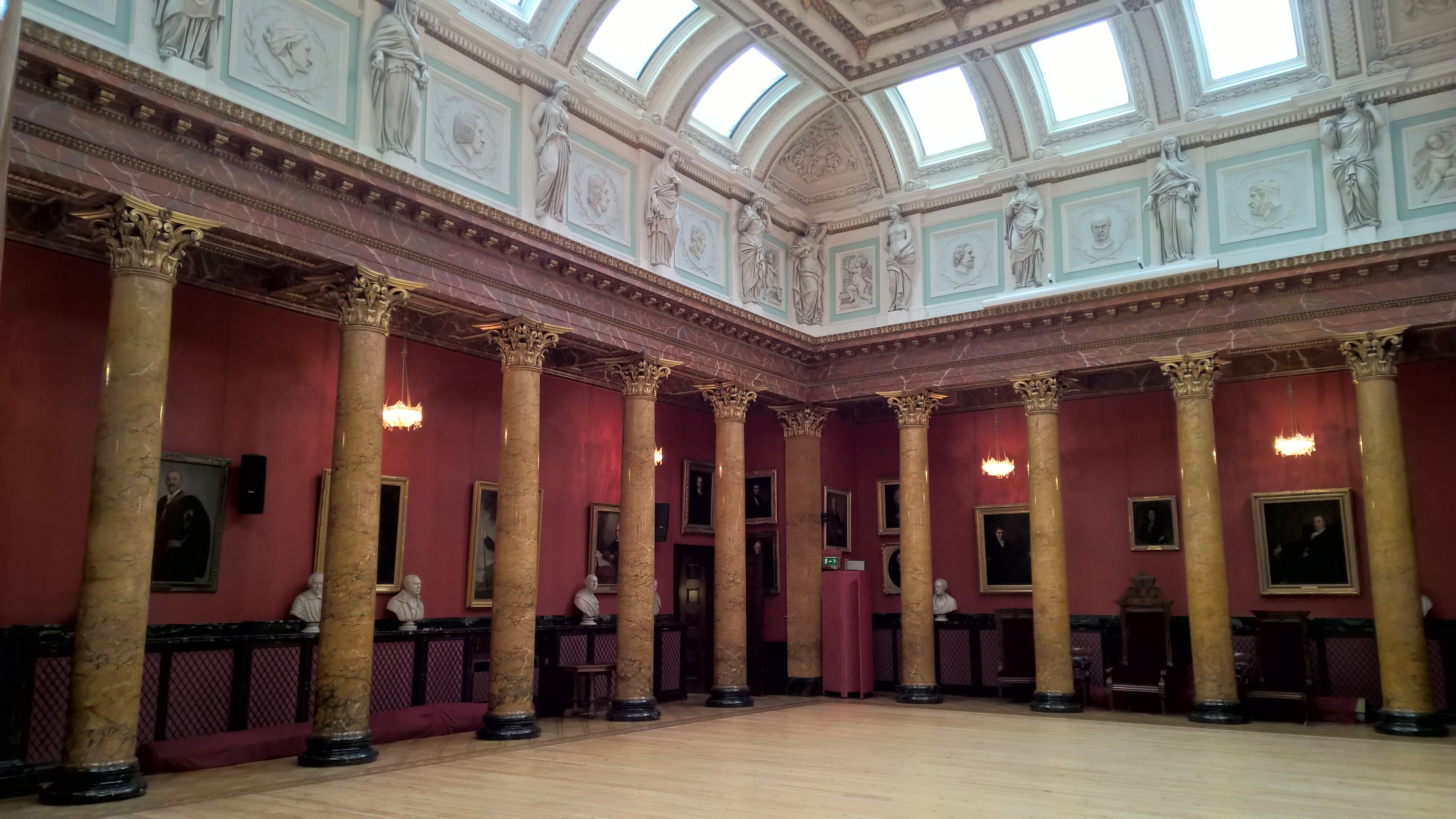 Royal College of Physicians of Edinburgh - Great Hall